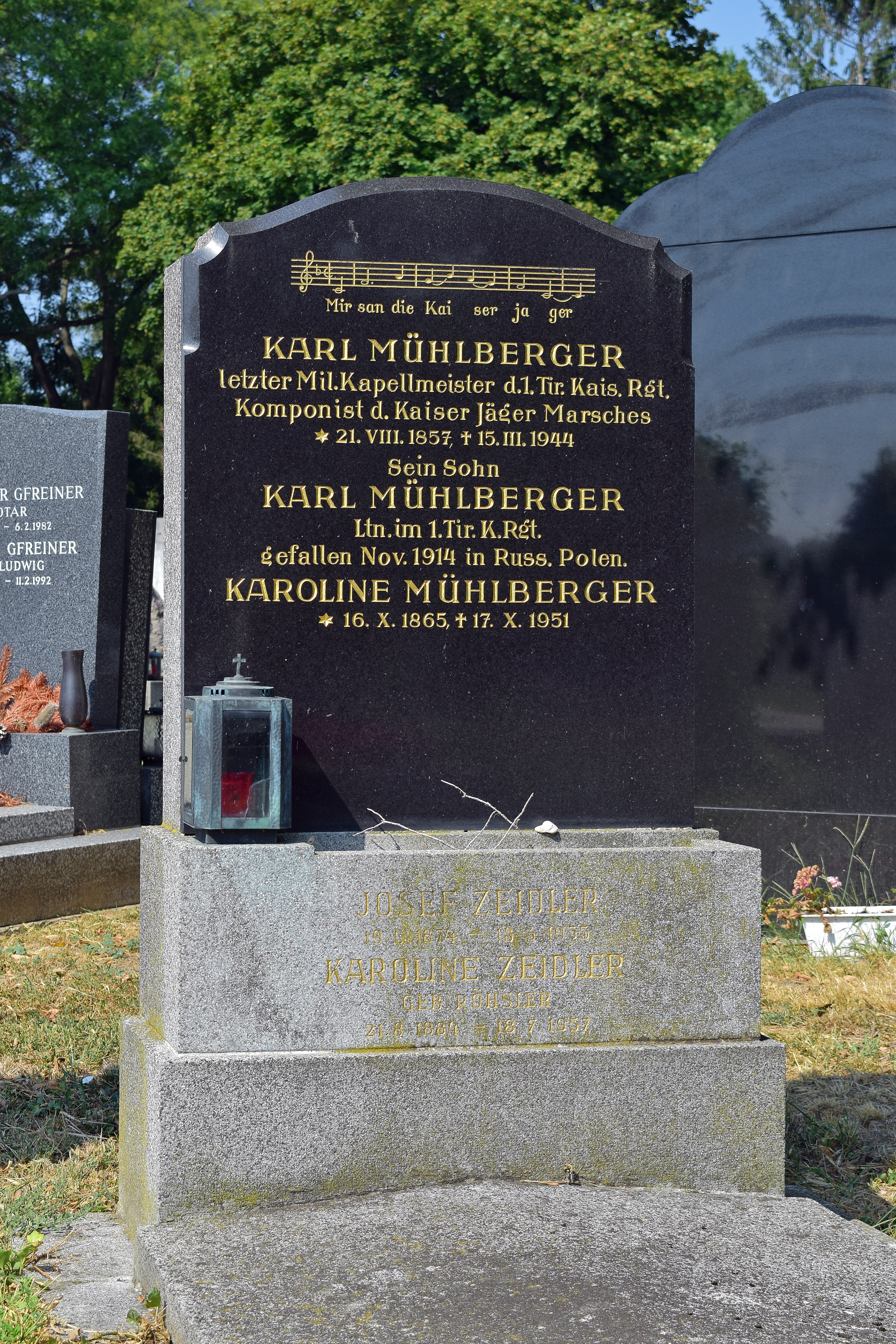 Grave of the musician Karl Mühlberger at the Wiener Zentralfriedhof